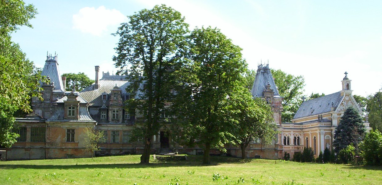 Ruined palace in Guzów (Masovia, Poland). North side, main entrance. On the right - church.